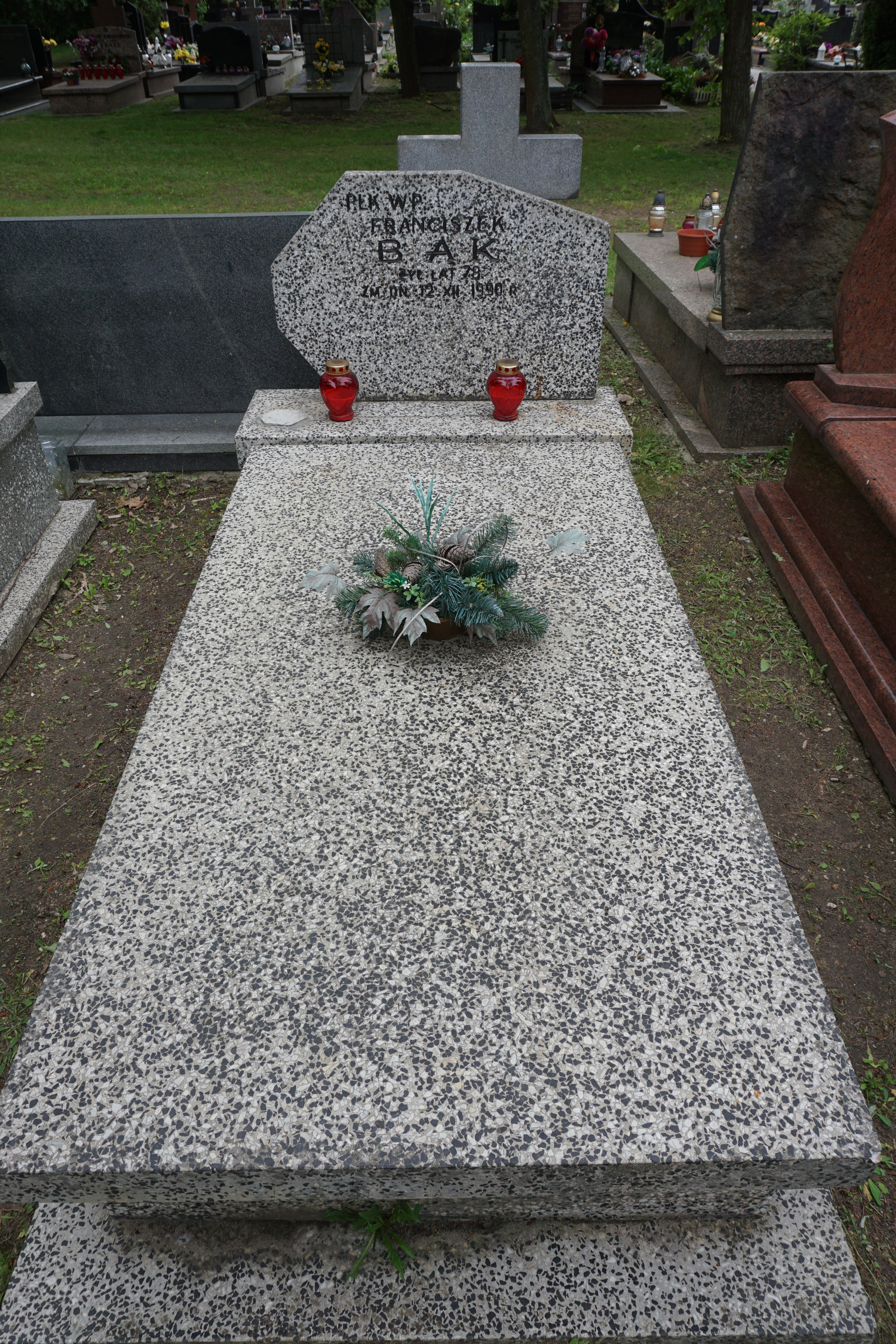 The grave of Franciszek Bąk at the North Municipal Cemetery in Warsaw (section E-VI-9, row 12, grave 4)